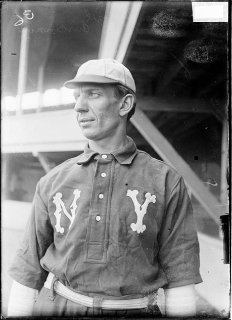 Chicago Daily News negatives collection, DN-0003451. Courtesy of Chicago History Museum.